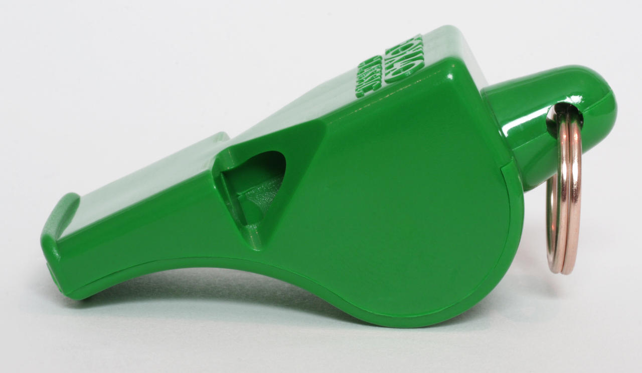 Fox 40 Classic Black Whistle